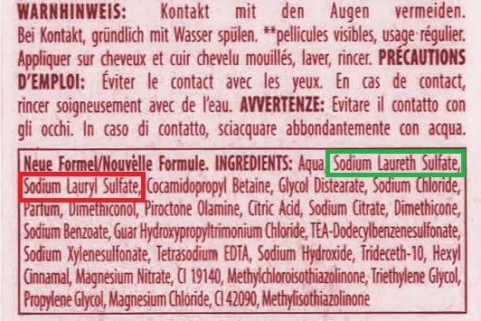 Showing of the ingredients of a shampoo.